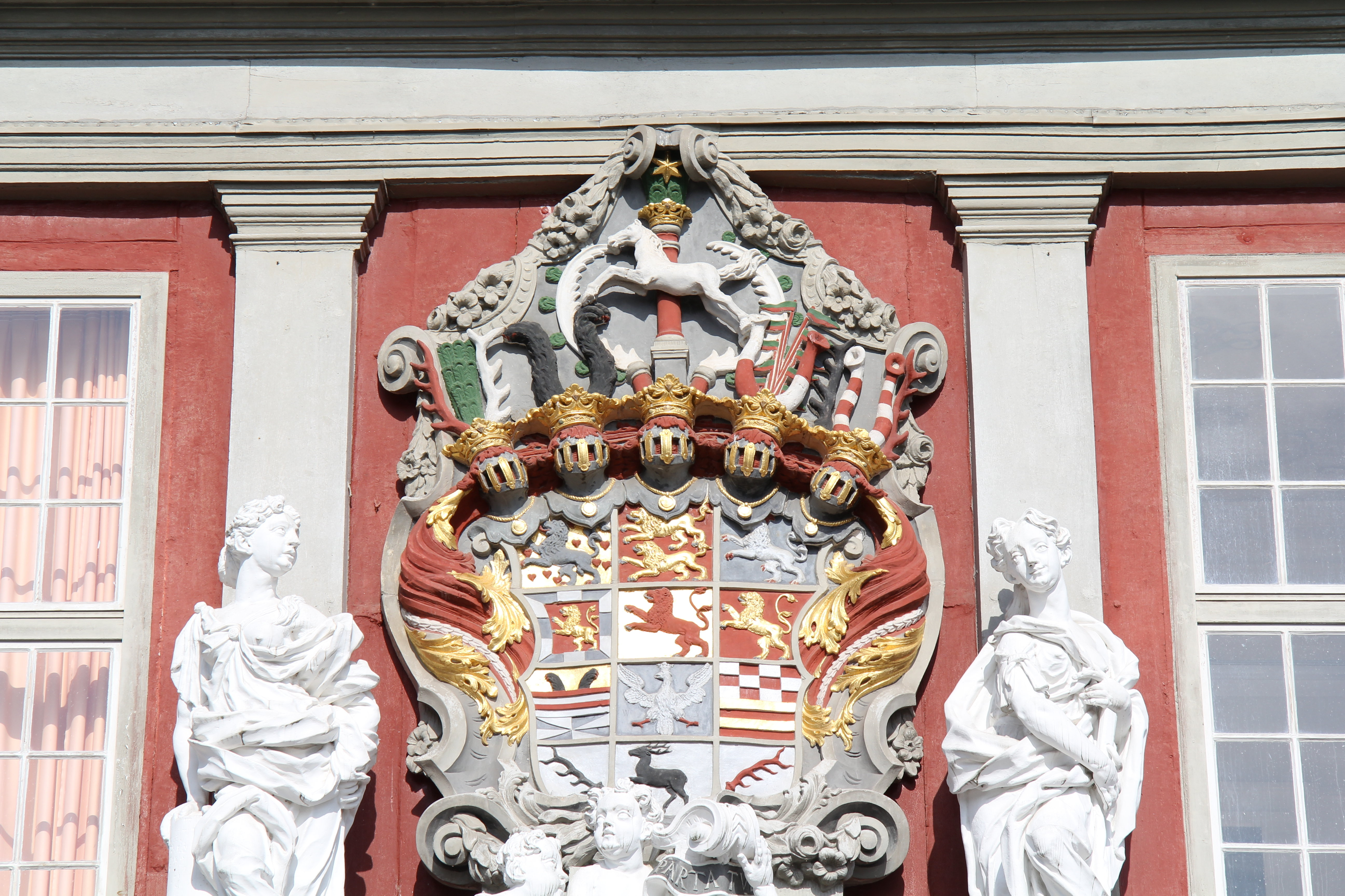 Coat of arms of the principality of Braunschweig-Wolfenbüttel over the Wolfenbüttel palace gate